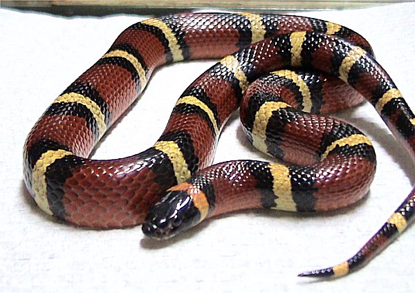 Lampropeltis triangulum annulata. Animal courtesy of Austin Reptile Service.